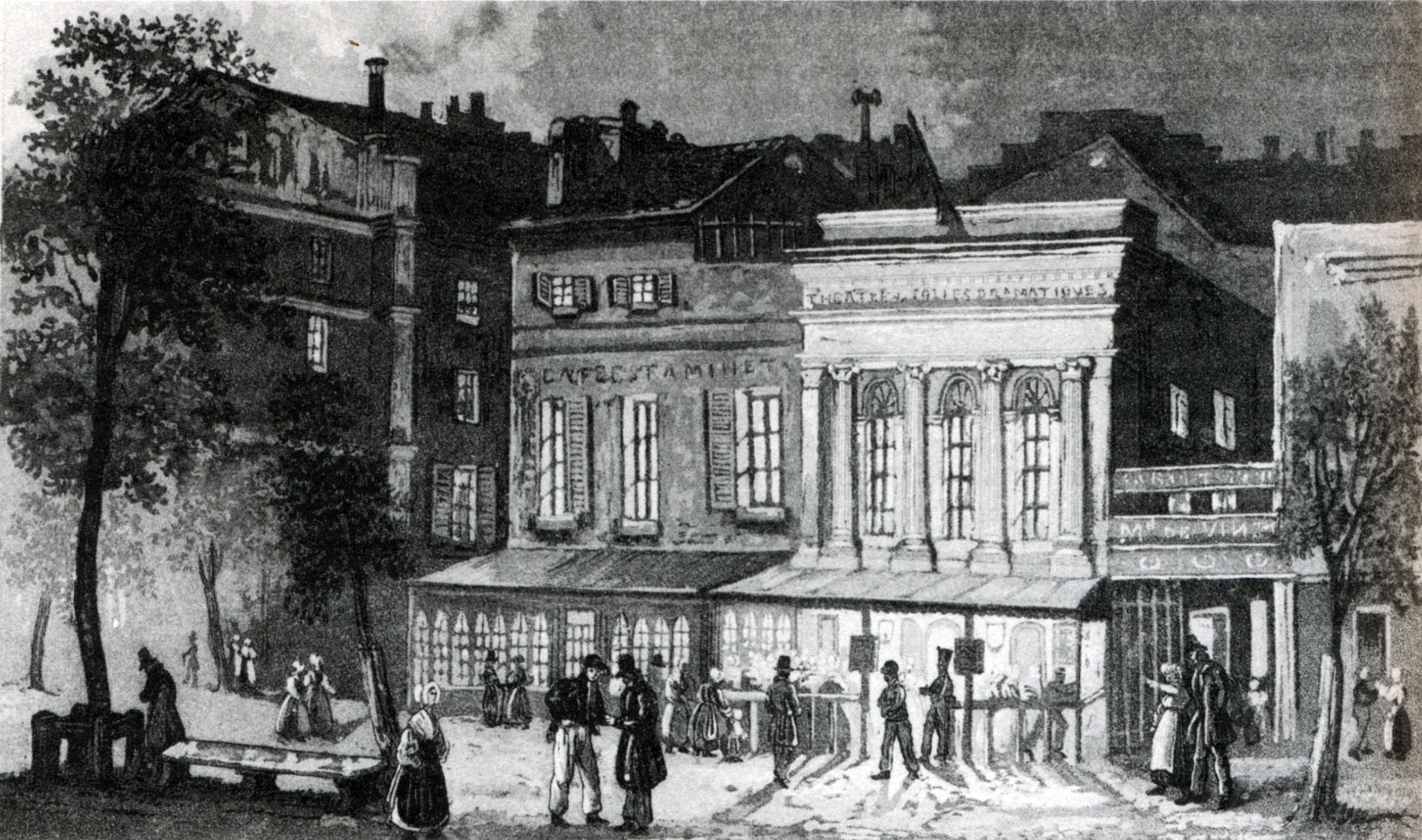 The Théâtre des Folies-Dramatiques on the boulevard du Temple around 1835